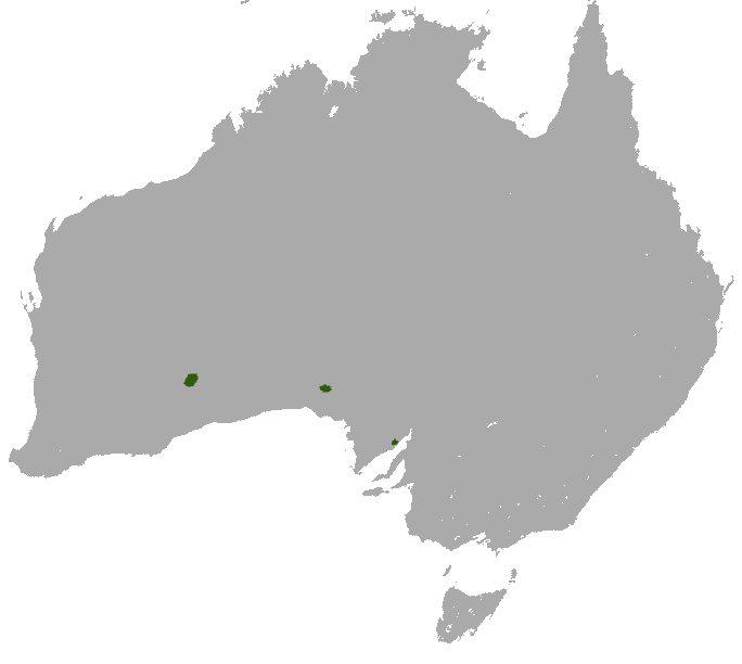 Sandhill Dunnart (Sminthopsis psammophila) range